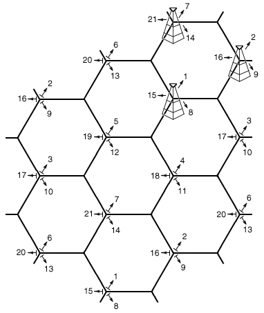 Shows cellular phone towers at corners of each haxagon cell. Channel numbers are from expired U.S. Patent 4,144,411 Fig. 9.8.7.3